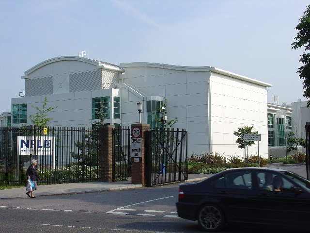 National Physical Laboratory. The new building for the National Physical Laboratory at Hampton Road, Teddington. The building is a modular design, comprising sixteen two-storey modules arranged in three wings, linked by transverse corridors on the upper floor